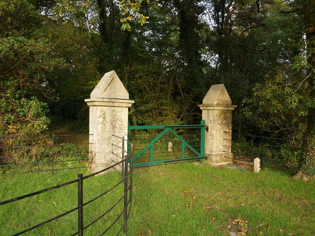 Gateposts, Trebartha In the fading daylight, these posts take on a rather phantom-like appearance at the entrance to a gloomy track. A matching pair stands on the opposite side of the lane (which is from Stonaford to Trebartha); the track forms a carriage drive running parallel to the nearby River Lynher through the Trebartha Hall estate.